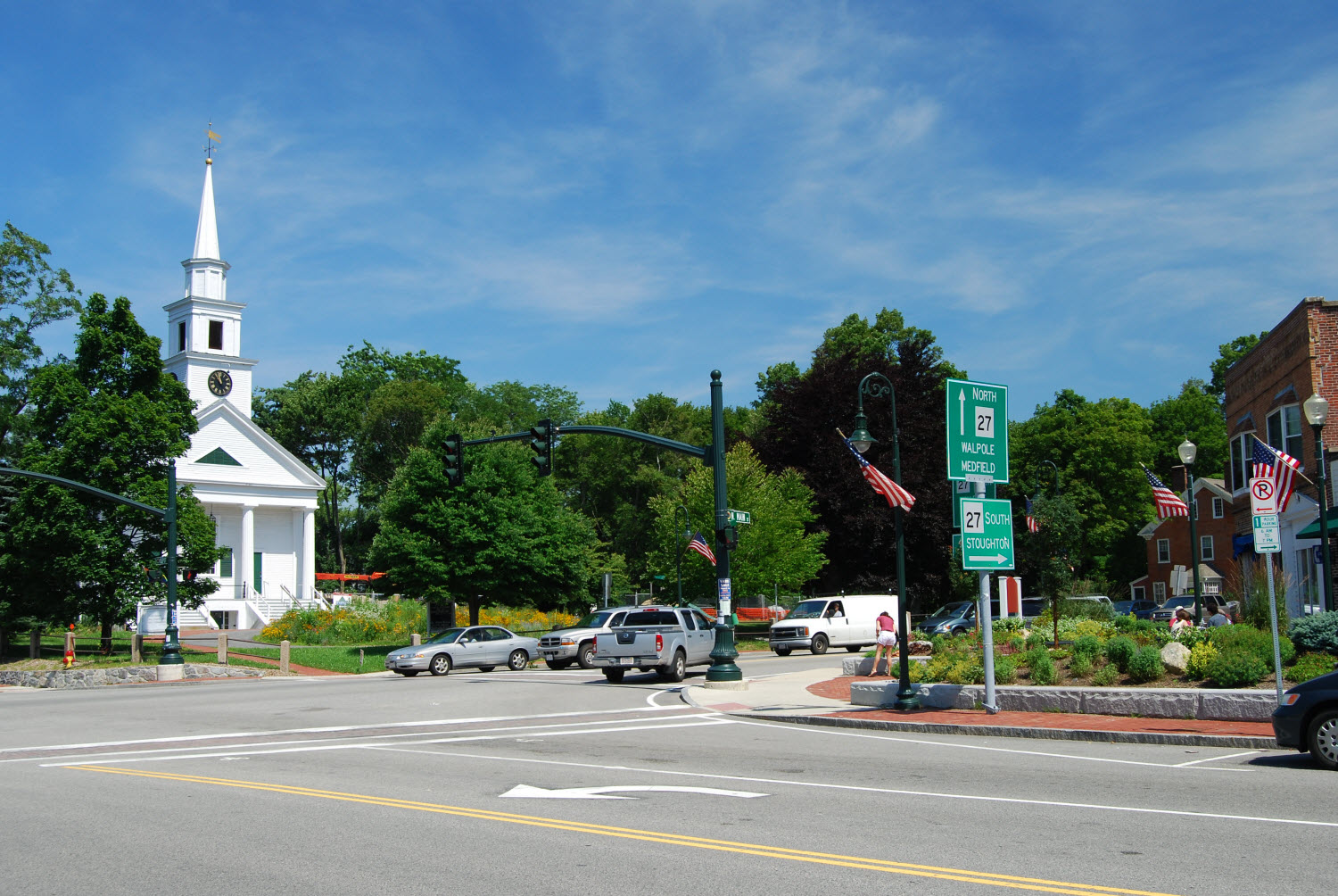 Sharon, Massachusetts, town center